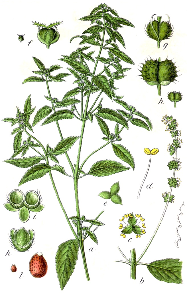 Mercurialis annua L. Original Caption Echtes Bingelkraut, Mercurialis annua